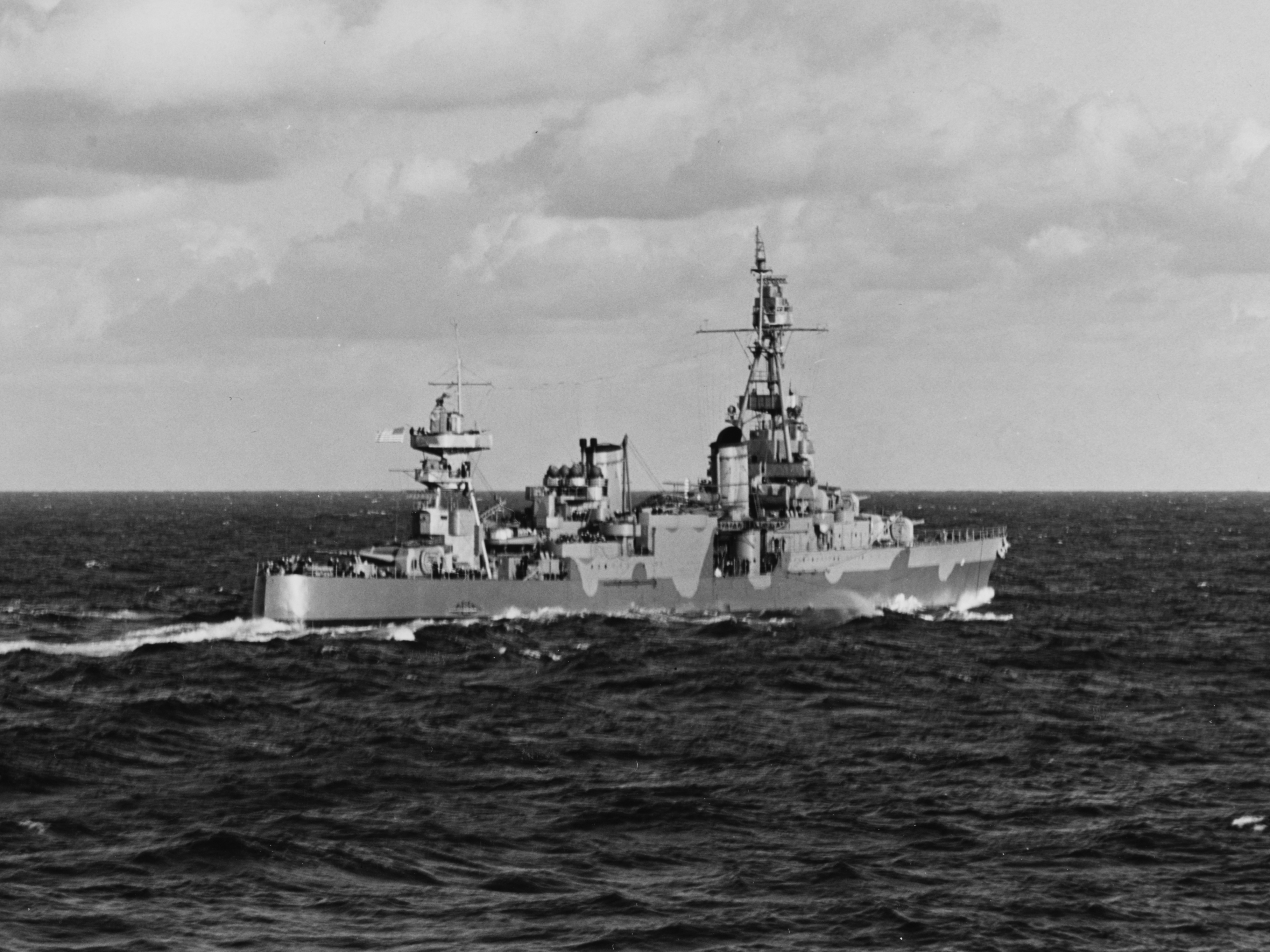 The U.S. heavy cruiser USS Augusta (CA-31) underway in the Atlantic Ocean on 18 April 1942.